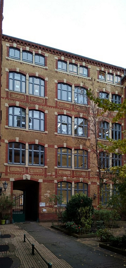 Humboldt University, Sophienstr 22 in 10115 Berlin, first court 2